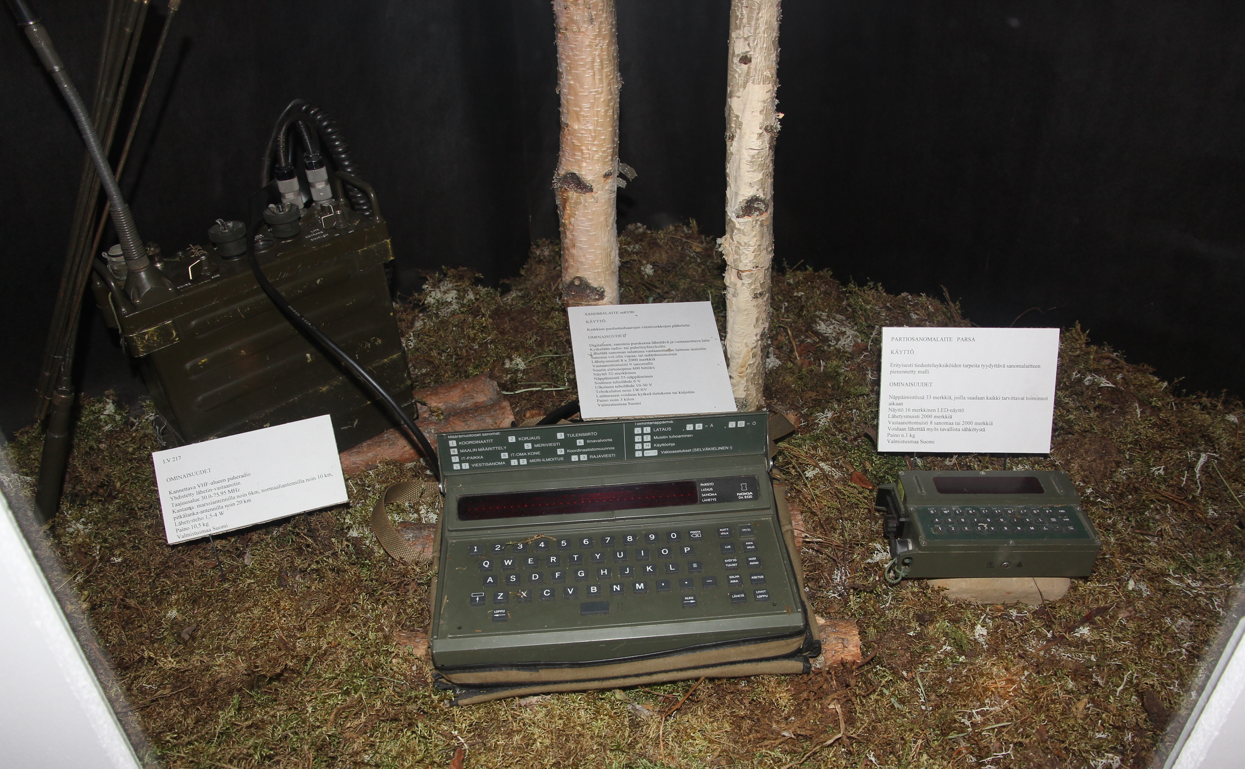 Finnish army digital messaging systems, sanomalaite m83/90 (center) and the small partiosanomalaite Parsa. On the left is LV 217 battalion radio, a Nokia license built version of US AN/PRC-77. Photographed in Mikkeli infantry museum.